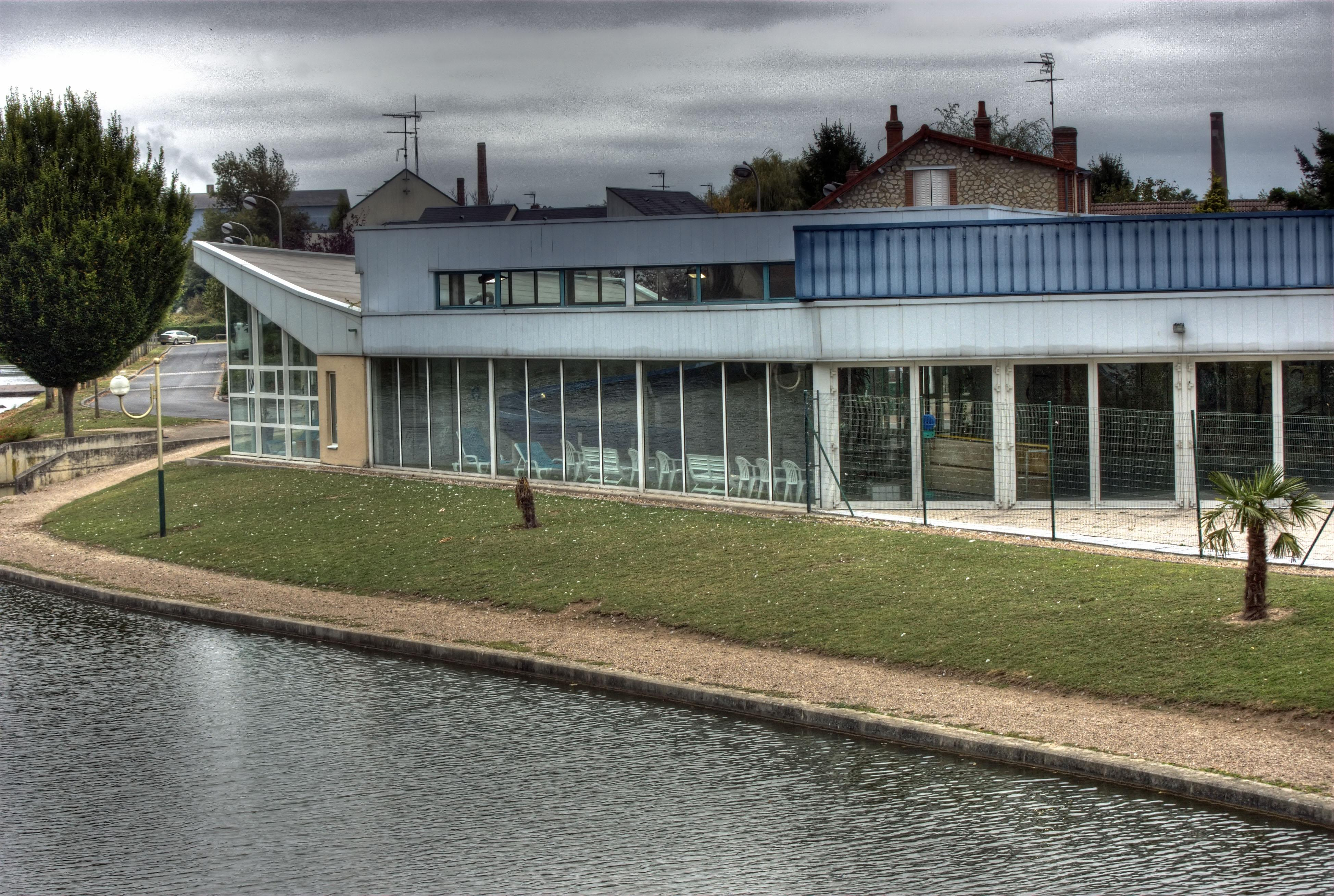 Swimming pool of Briare, Loiret, Centre, France